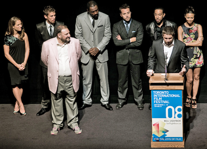 The cast of RocknRolla for a screening of the film at the 2008 Toronto International Film Festival.